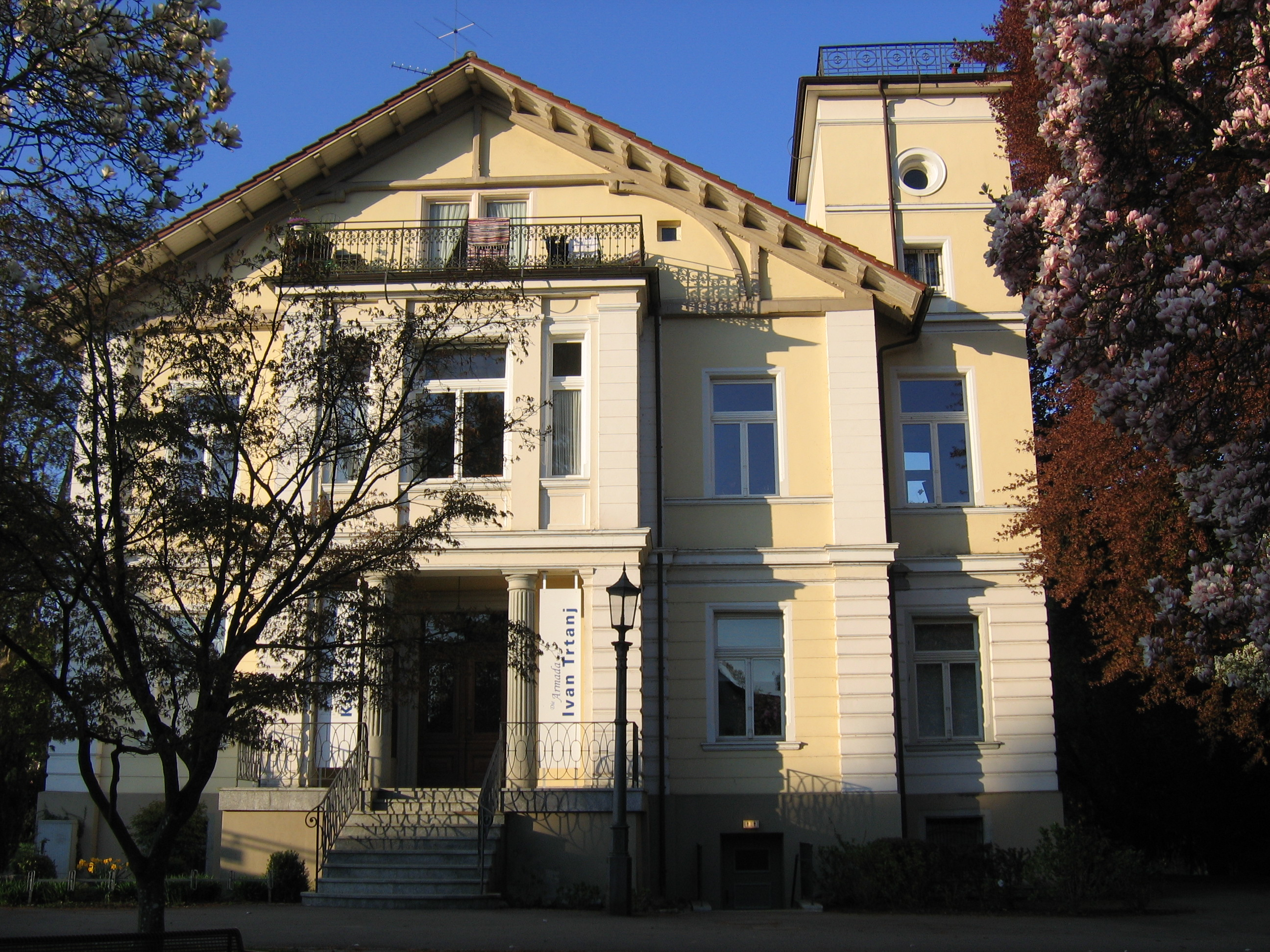 Germany - Baden-Württemberg - Bodenseekreis - Kressbronn am Bodensee, Seestraße 20: 'Schlössle', an old villa